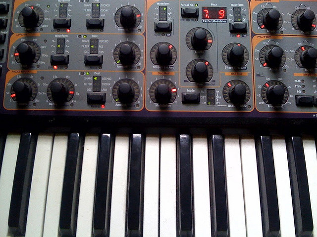 Clavia Nord Lead 3 Was attracted by the bright lights on Gavins keyboard. Wish i could play.